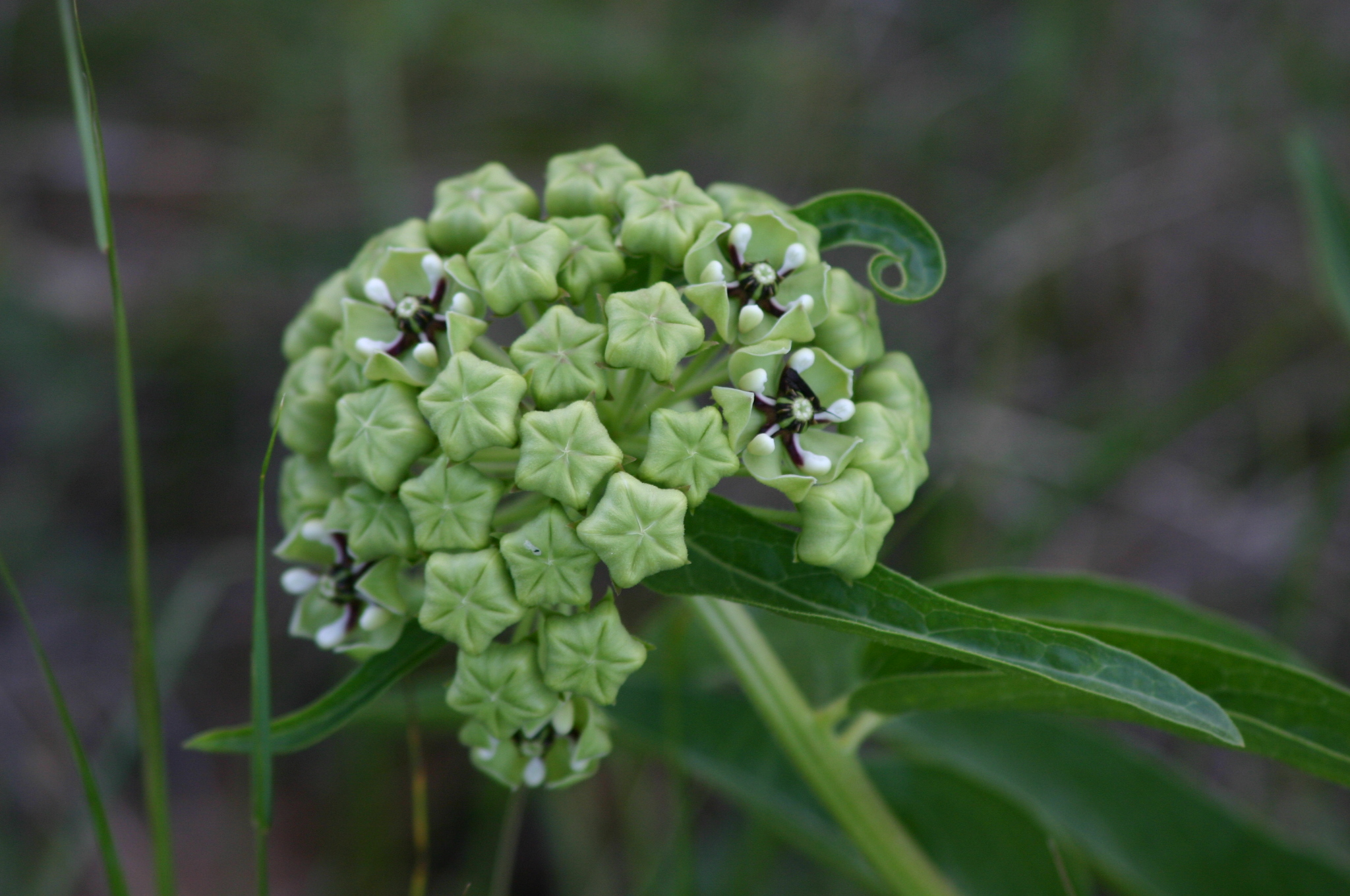 This plant is Asclepias asperula, with a common name Antelope Horns.